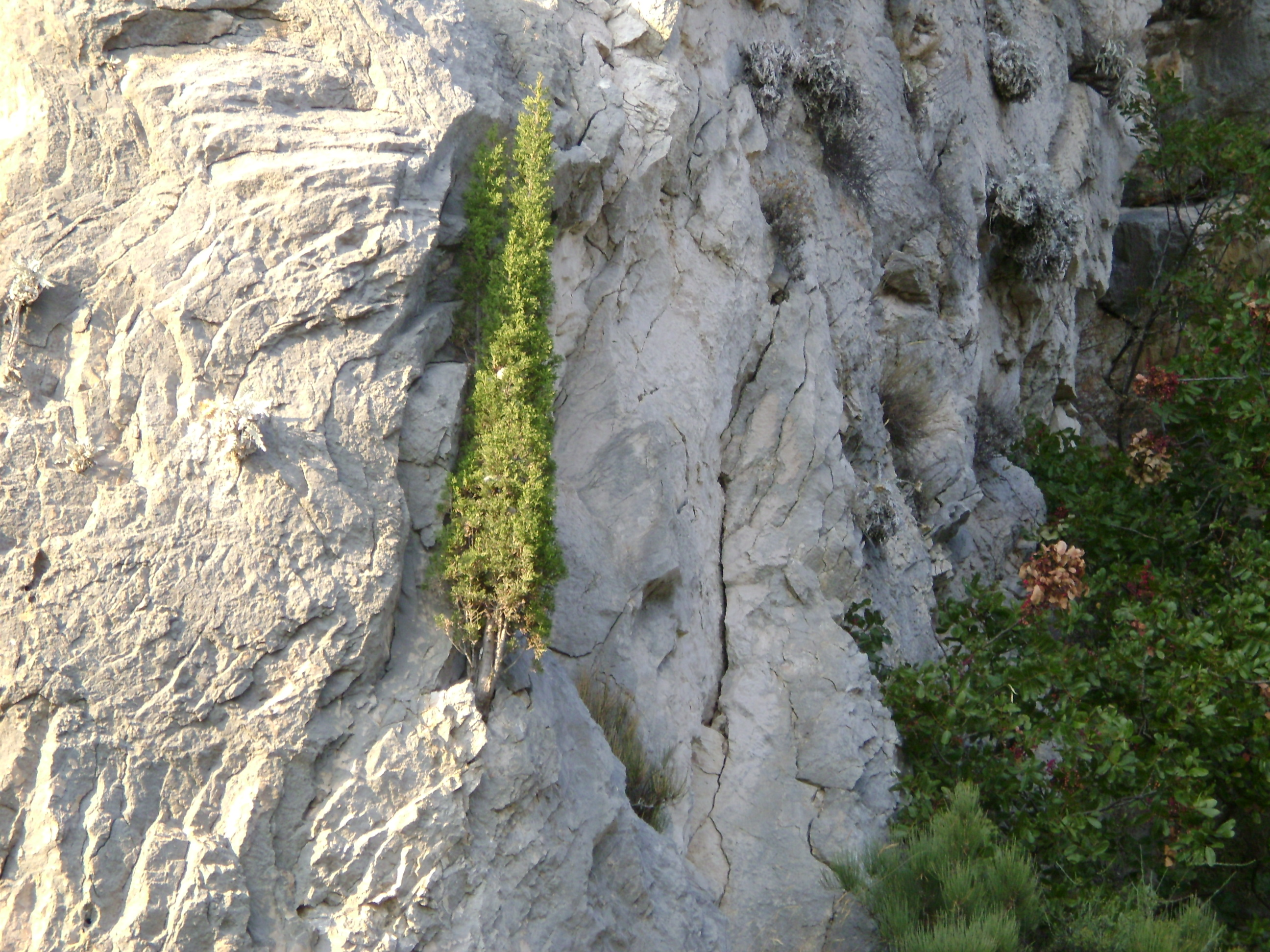 Tree growing from stone at Marjan hill near/at Split, Croatia